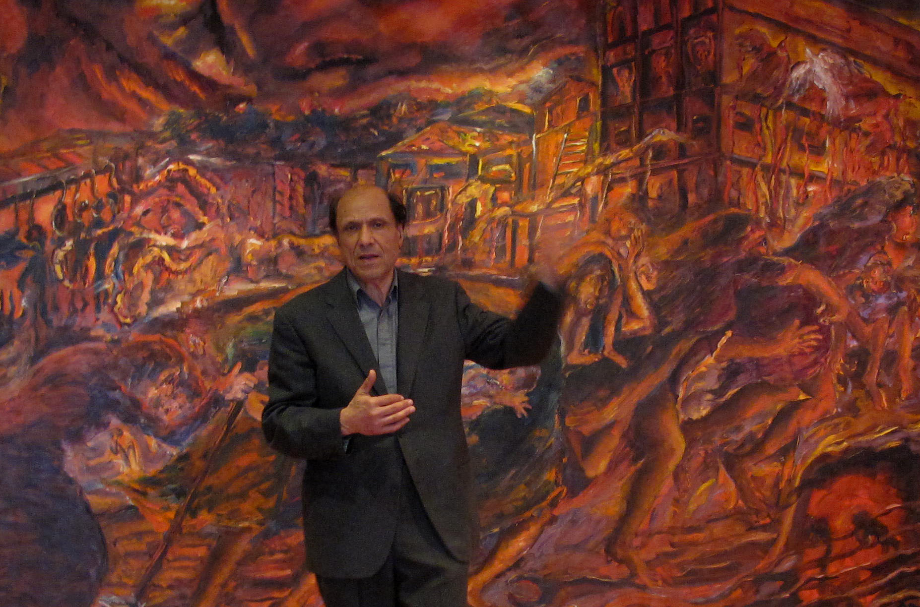 Nabil Kanso, conversation, Mission of Venezuela to the United Nations